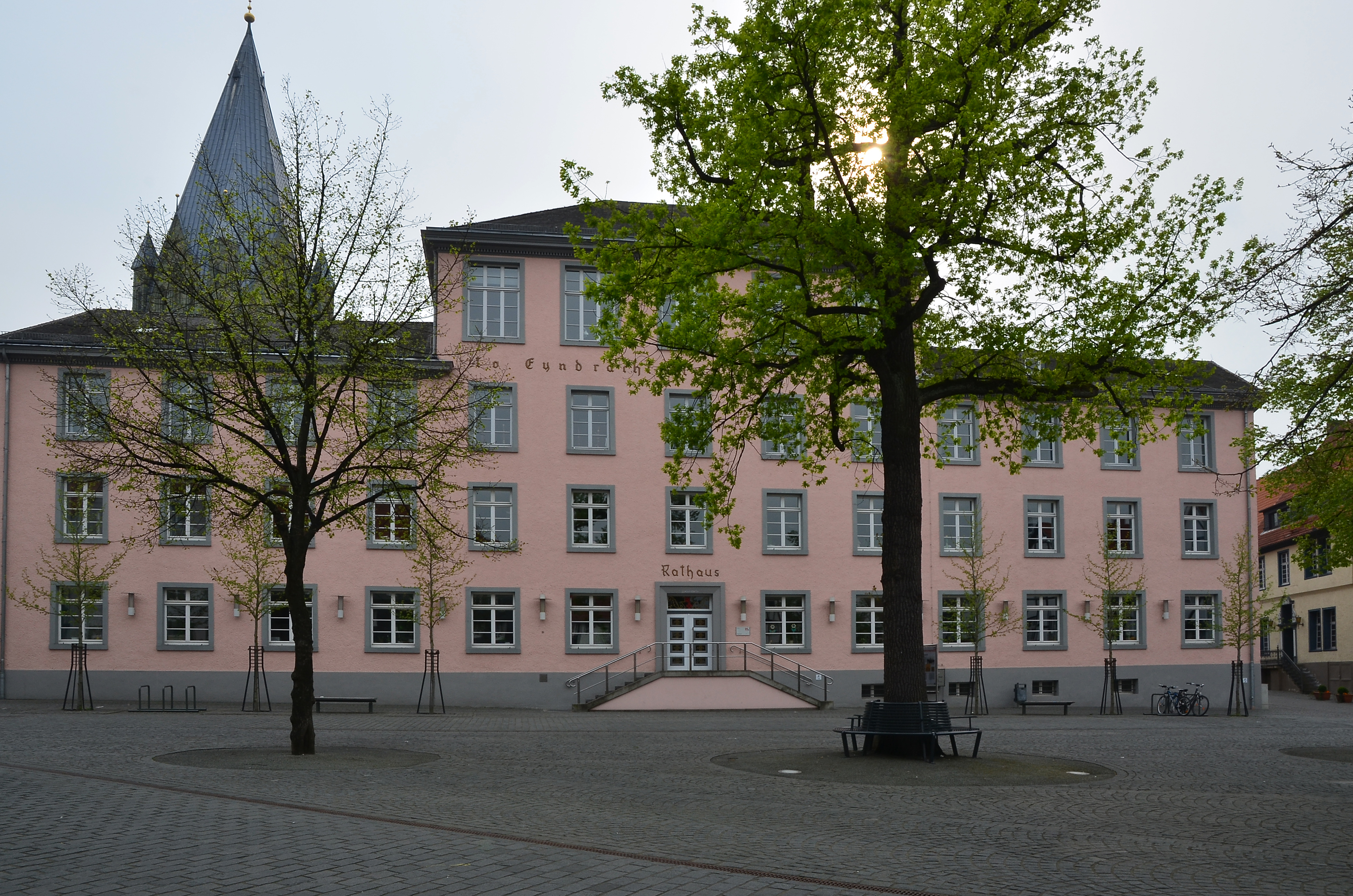 City Hall, East Wing, Soest, Germany This image shows a heritage building in Germany, located in the North Rhine-Westphalian city Soest.